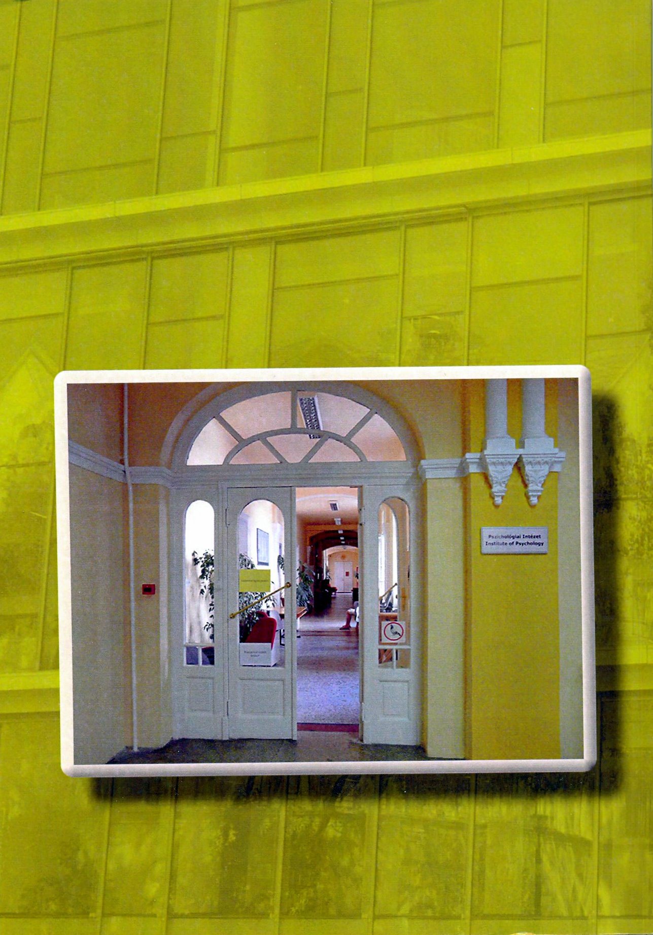 The Institute of Psychology at the University of Szeged is 80 years old (1929-2009)/ed. Ágnes Szokolszky